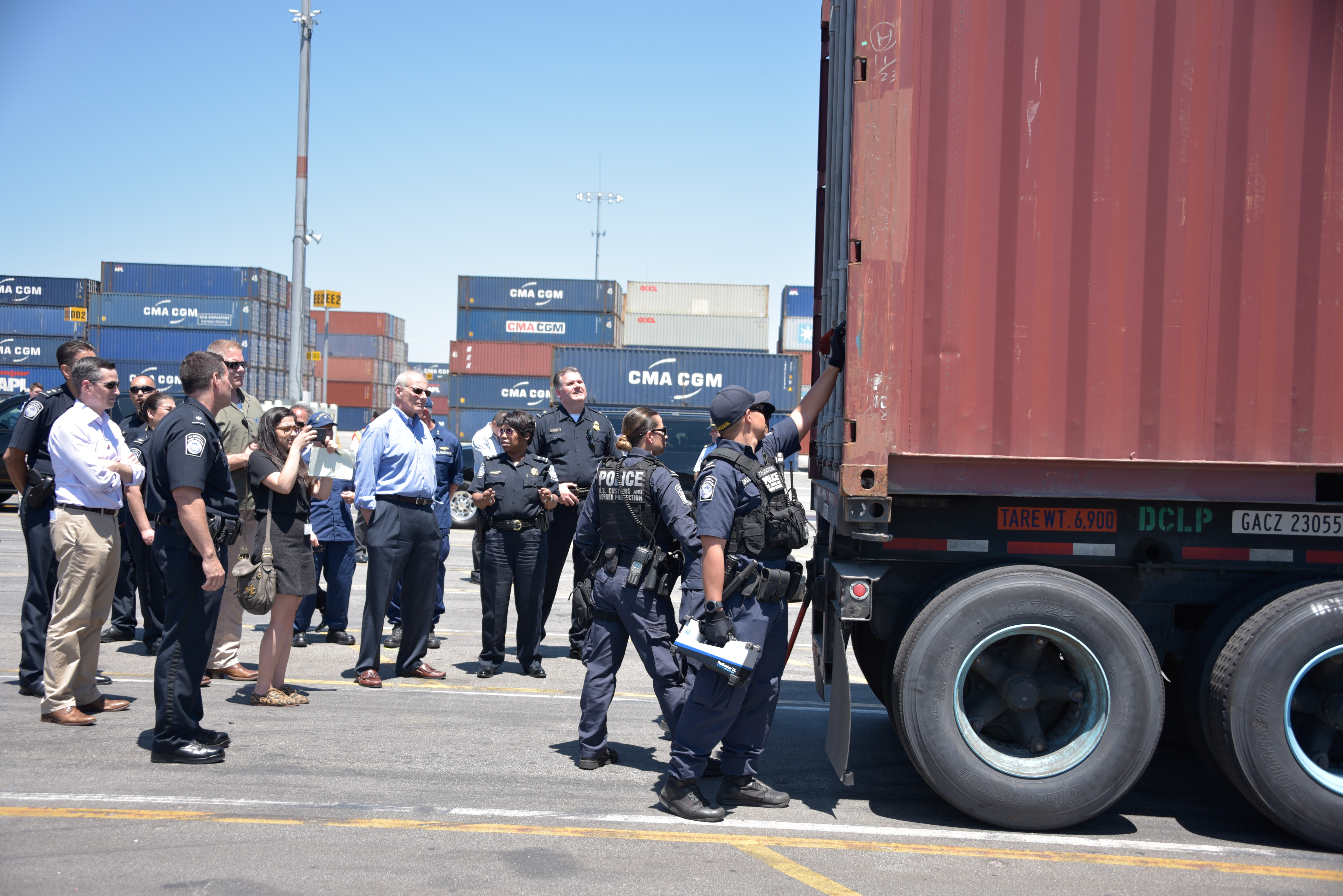 LONG BEACH, Calif. - Secretary of Homeland Security John Kelly visits the Los Angles-Long Beach Port to observe U.S. Customs and Border Protection operations and meet with CBP personnel, July 20, 2017, in Long Beach, California. Each year the port handles more than 6.8 million 20-foot container units with cargo valued at $180 billion. Official DHS photo by Jetta Disco.